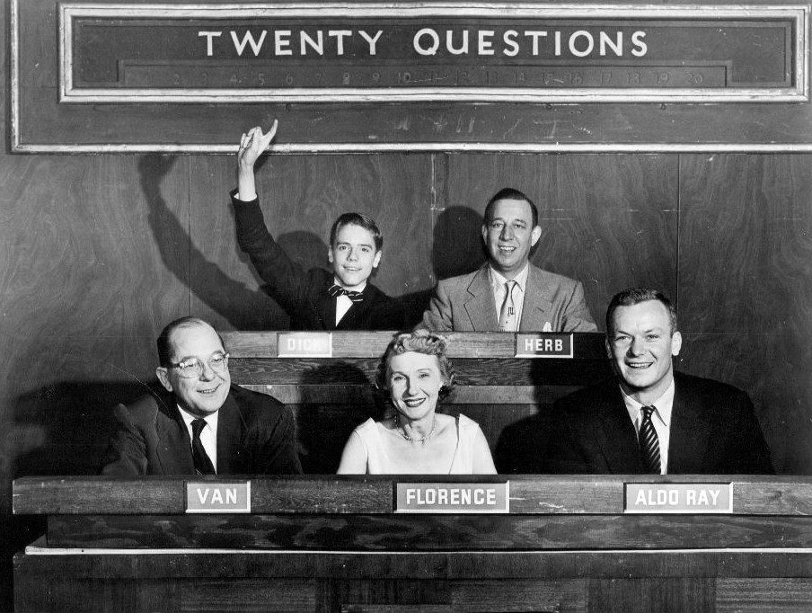 Publicity photo from the game show Twenty Questions. Actor Aldo Ray is in the photo as a guest panelist.